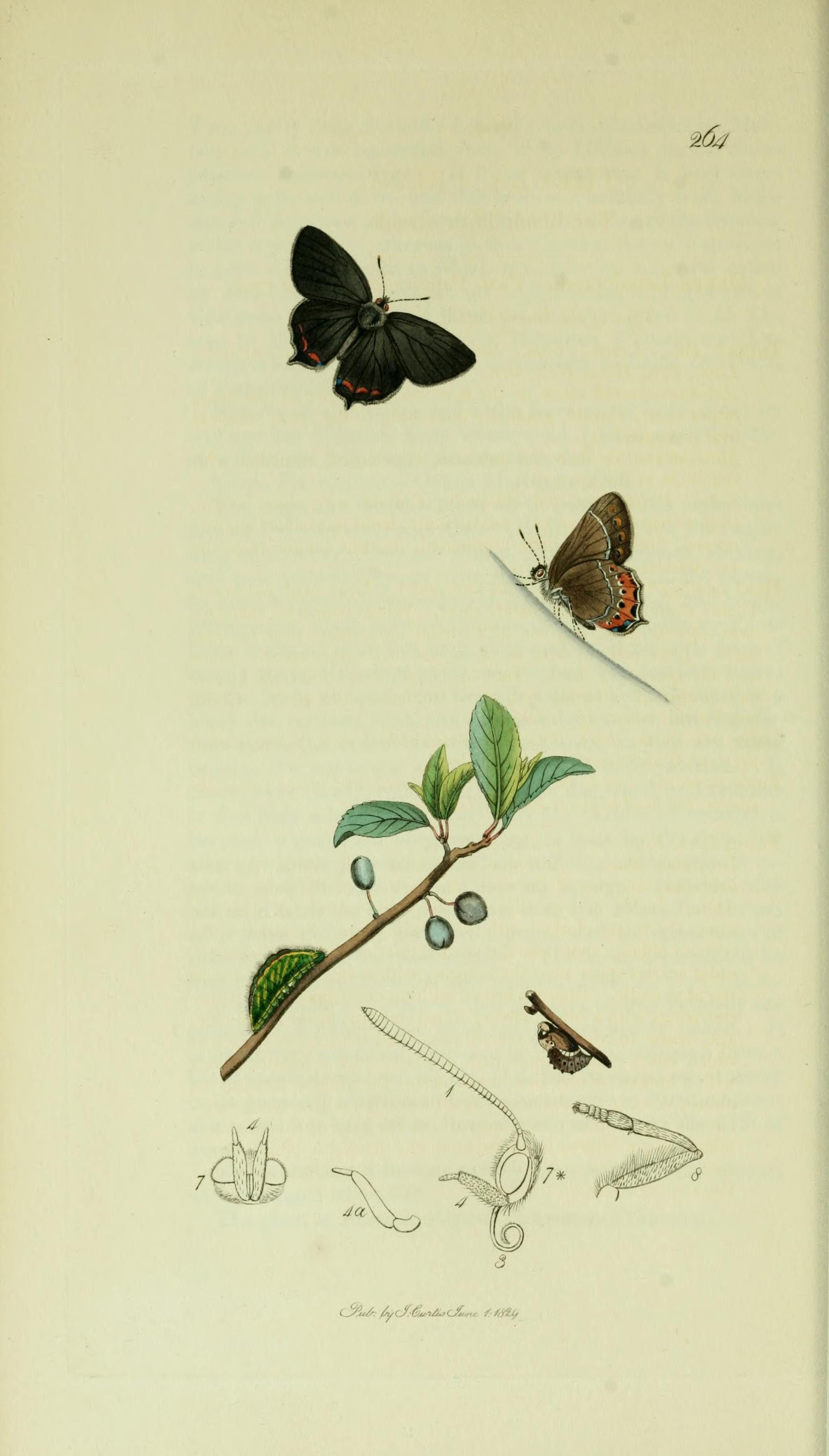 An illustration from British Entomology by John Curtis. hecla pruni Strymonidia pruni or Satyrium pruni(Black Hair-streak).